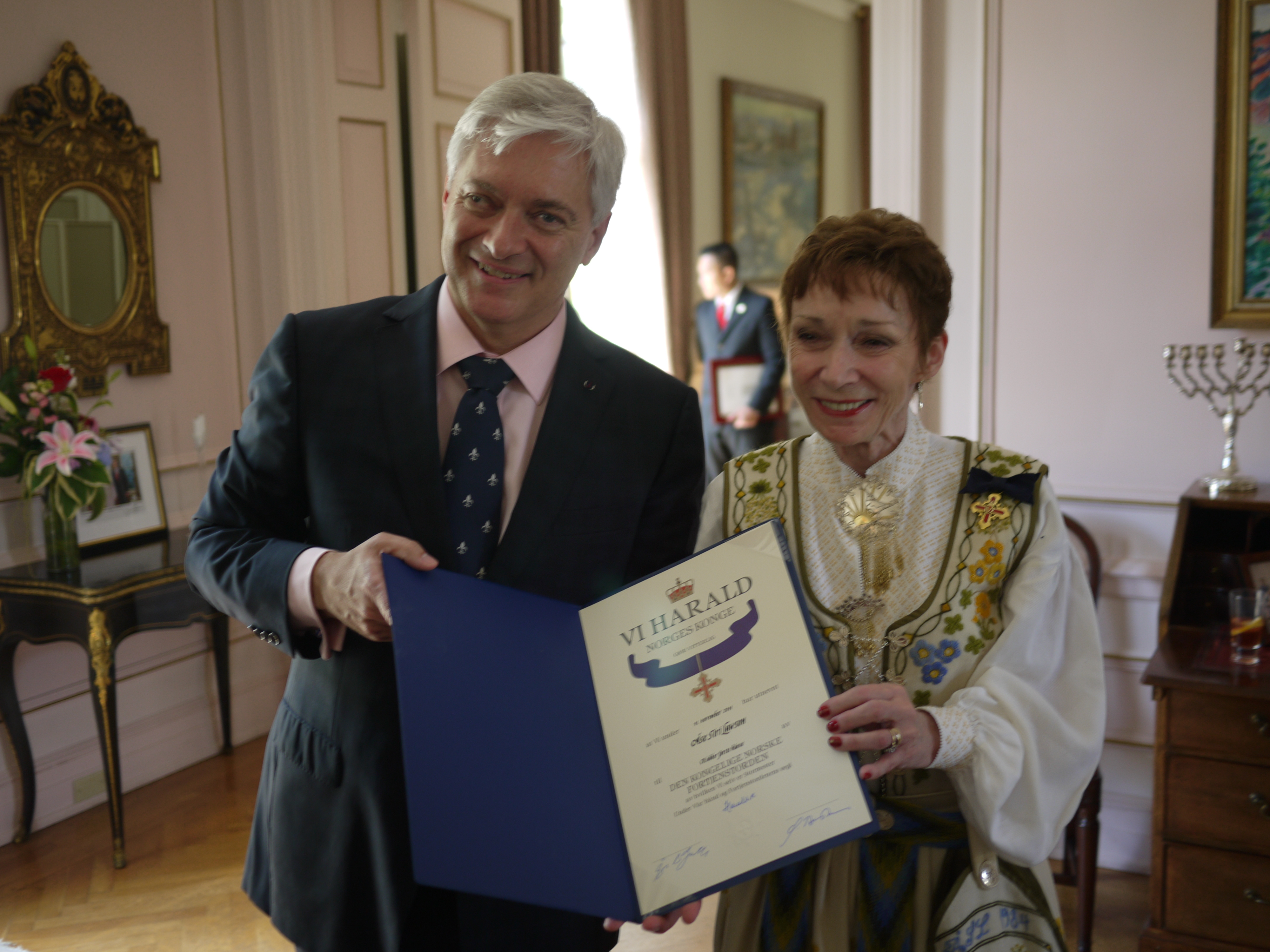 Siri's Knighthood Diploma. Siri Lawson with ambassador of Norway Wegger Chr. Strømmen when receiving Knight 1. Class of the Royal Norwegian Order of Merit.